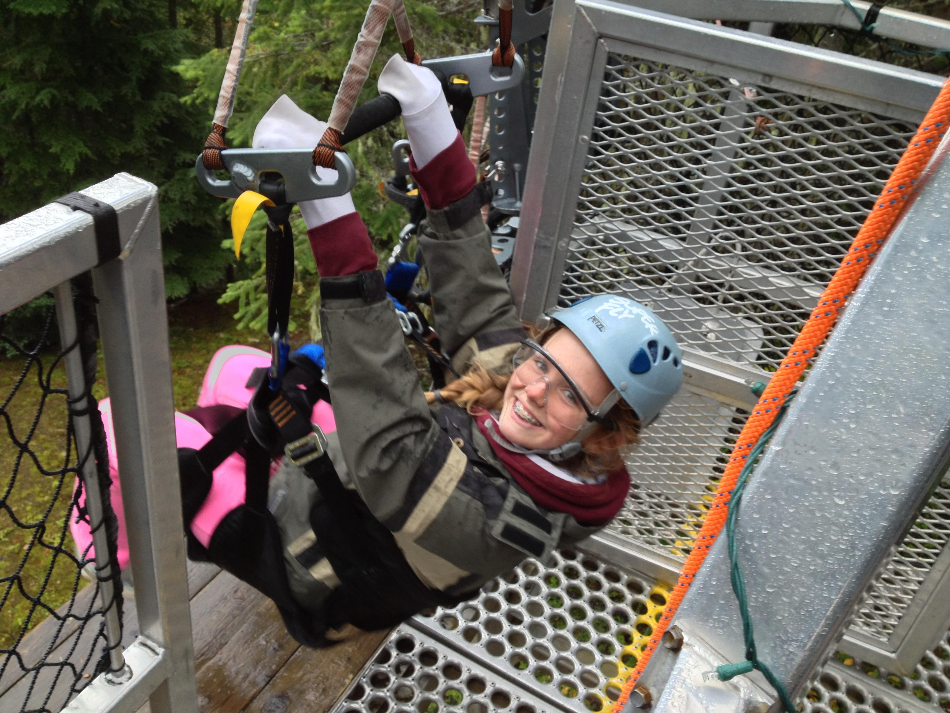 Departure gate and trolley of the old zip line at SuperFly in Whistler, BC, Canada